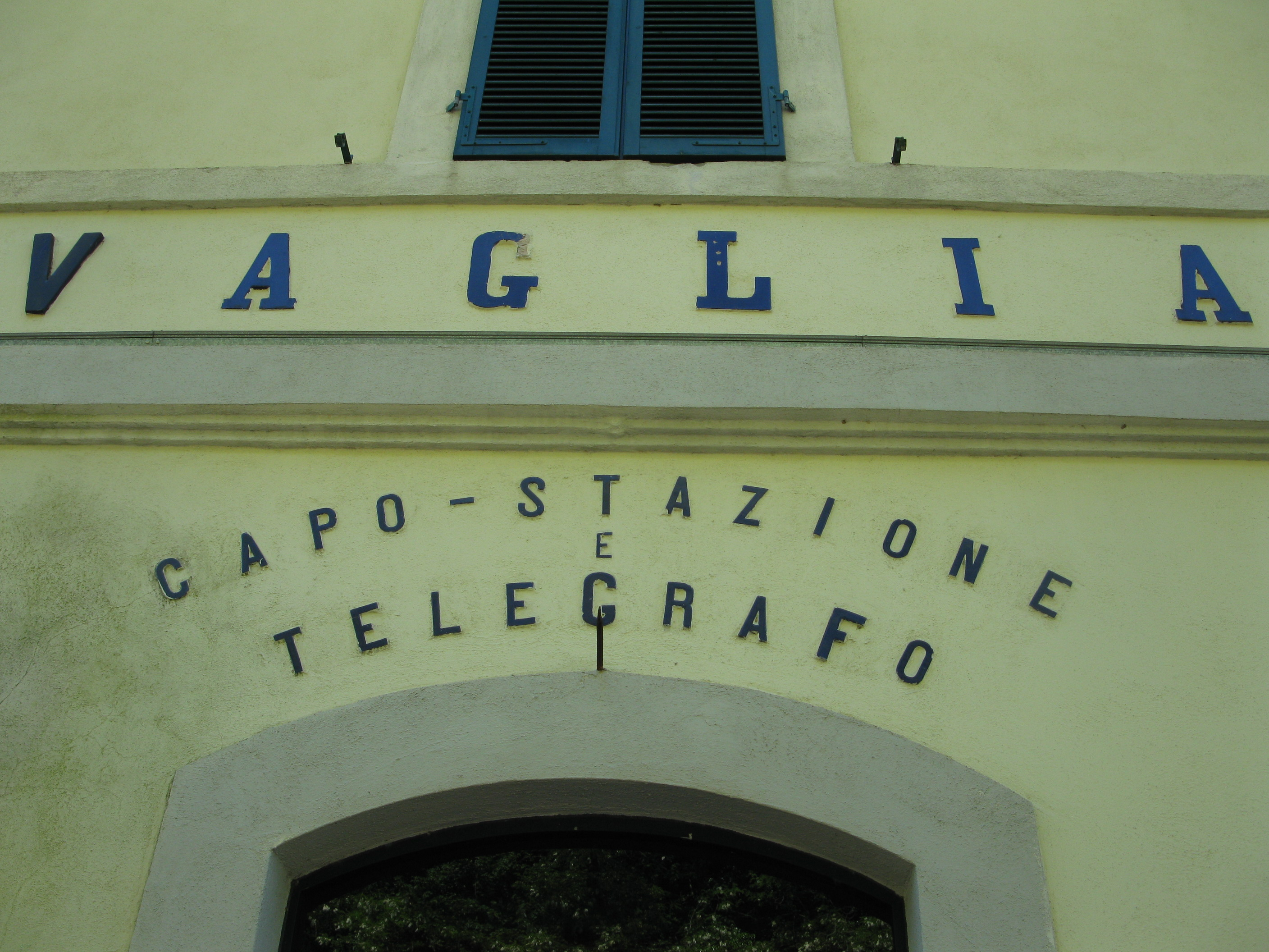 Valgia railway station, old sign of the station master office